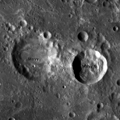 Malyy lunar crater LROC image